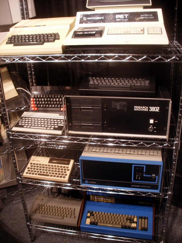 Computers from the early-1980s:- Dragon 32 (or Dragon 64), Commodore Pet, Oric 1, Oric Atmos, New Brain, Research Machines 380Z, Camputers Lynx and others